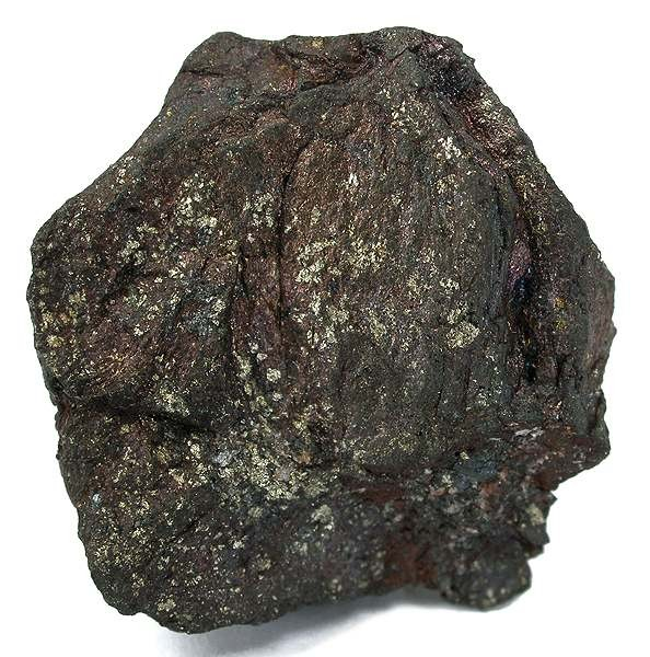 Germanite Locality: Tsumeb Mine (Tsumcorp Mine), Tsumeb, Otjikoto (Oshikoto) Region, Namibia (Locality at ) Size: 3.3 x 3.2 x 1.4 cm. This is a solid 23-gram specimen of germanite-rich ore from level 37 of the Tsumeb Mine, deep in its third oxidation zone. This region was noted for its incredible wealth of very rare elements and minerals containing germanium, among others. From the well-known collection of Belgian teacher and Tsumeb collecting specialist, Willy Israel.